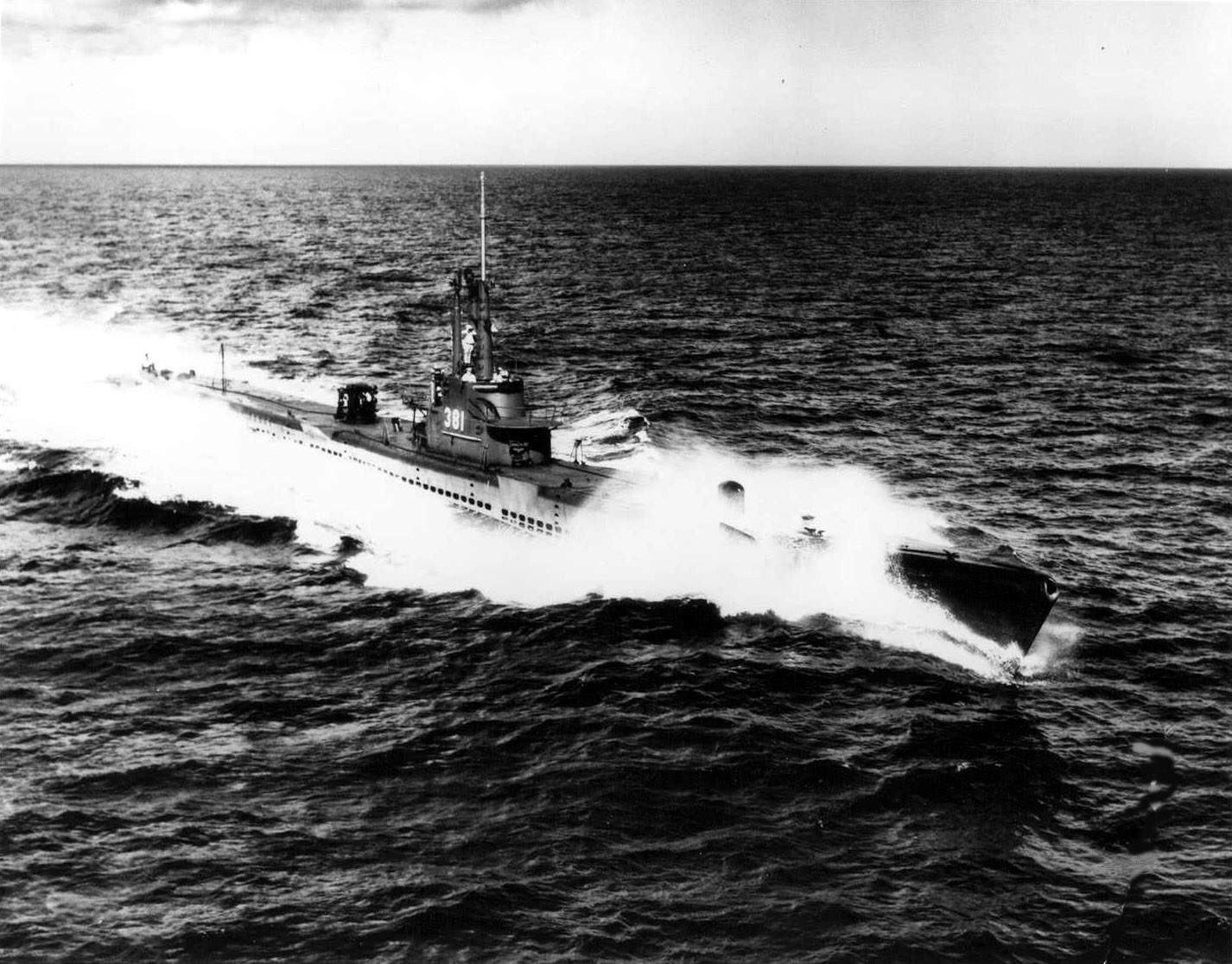 United States Navy submarine USS Sand Lance (SS-381) on npost-repair trials off Oahu, Hawaii